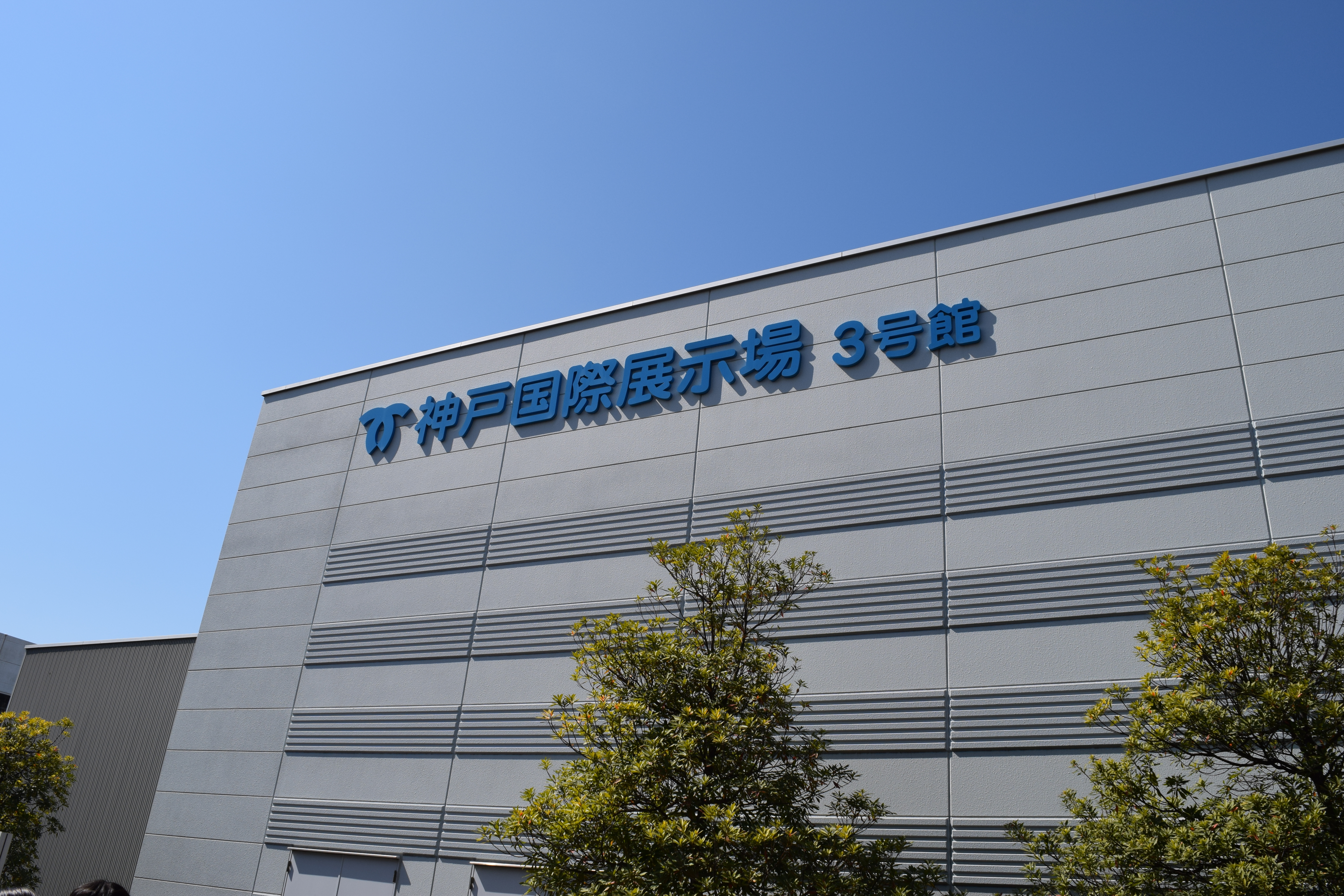 Kobe International Exhibition Hall Bldg.3.